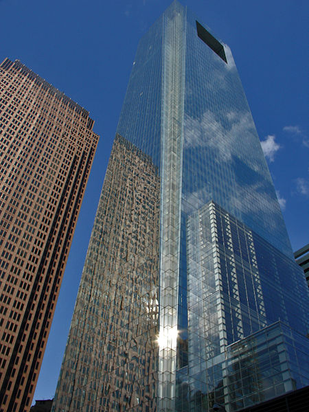 Comcast Center, the headquarters of Comcast - nearly completed, photographed 3/14/08